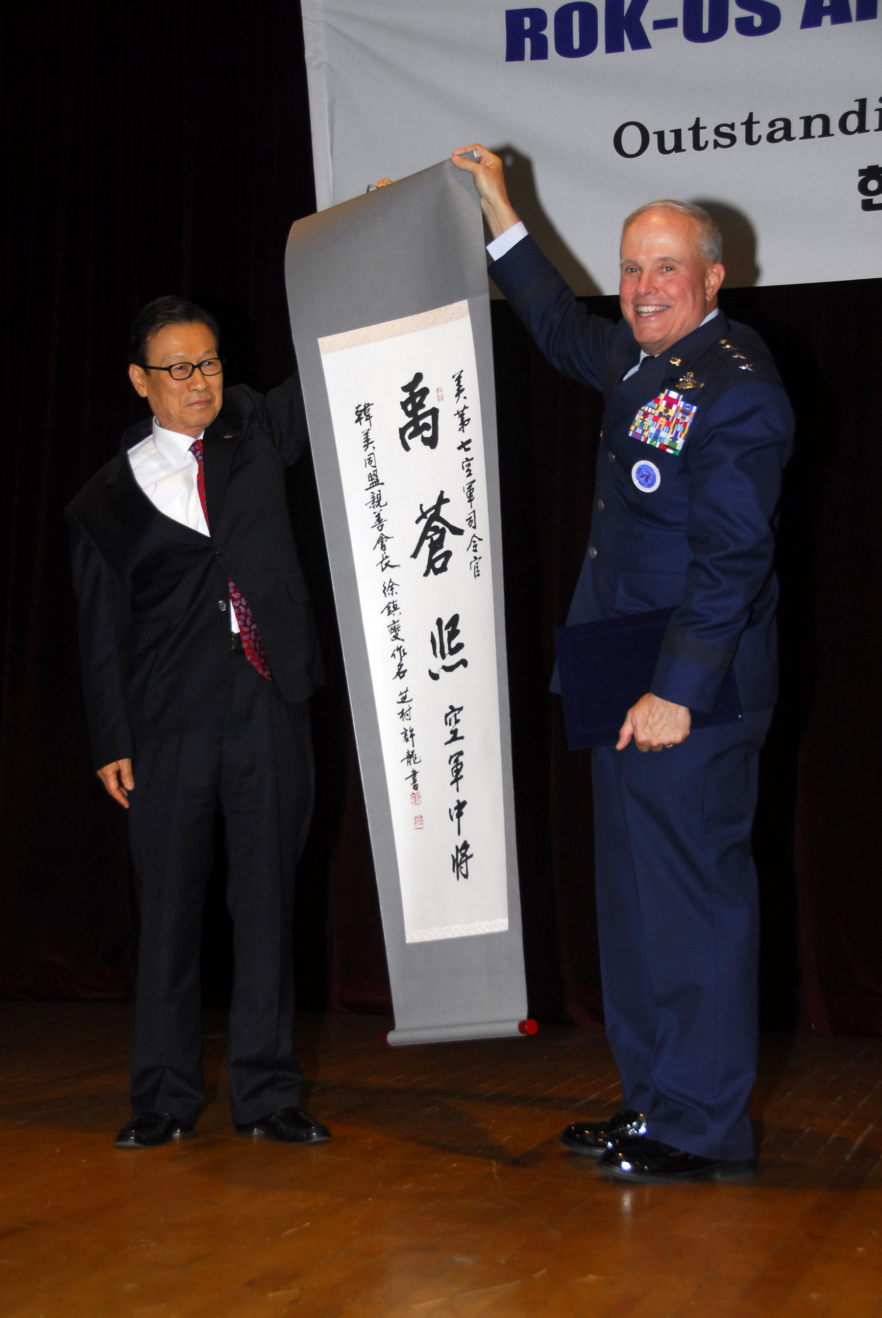 OSAN AIR BASE, Republic of Korea--Chairman Suh Jin Sup of the Korea-U.S. Alliance Friendship Society gave the Seventh Air Force Commander Lt. Gen. Stephen G. Wood the name "Woo, Chang Hui." (Pronounced Woo, Chang Hee.) during a naming ceremony witnessed by the Chief Master Sergeant of the Air Force Rodney J. McKinley and approximately 200 Airmen, Soldiers, Sailors, and Marines and ROK civic leaders. The naming ceremony was part of a larger recognition ceremony where 45 Korean leaders presented 50 Airmen certificates embossed with the gold letters "ROK-US."